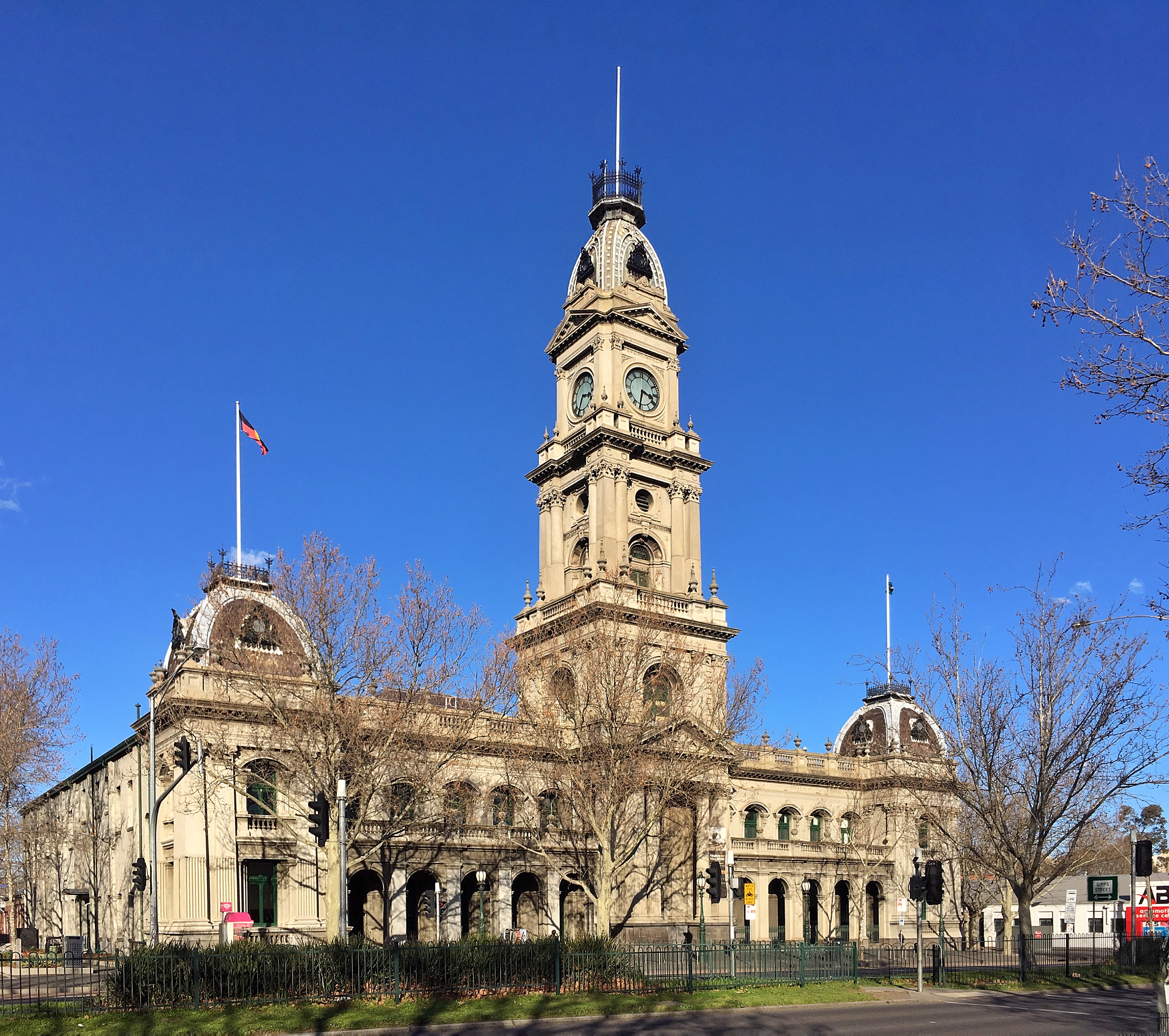 Collingwood Town Hall 1885 George Johnston architect